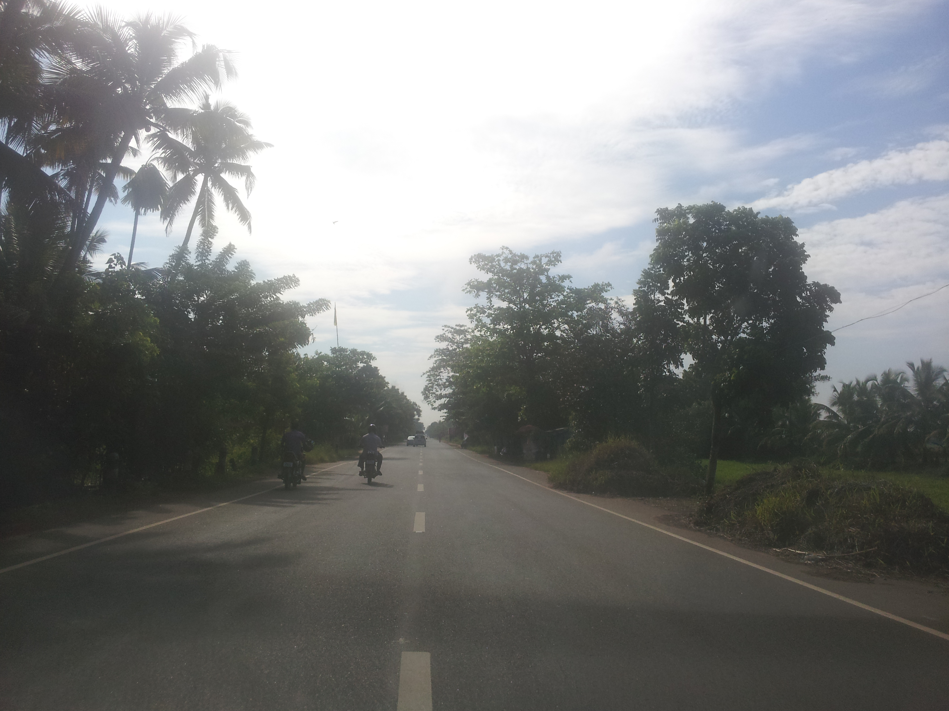 A view of Alappuzha Changanaserry road(AC road)at Nedumudi